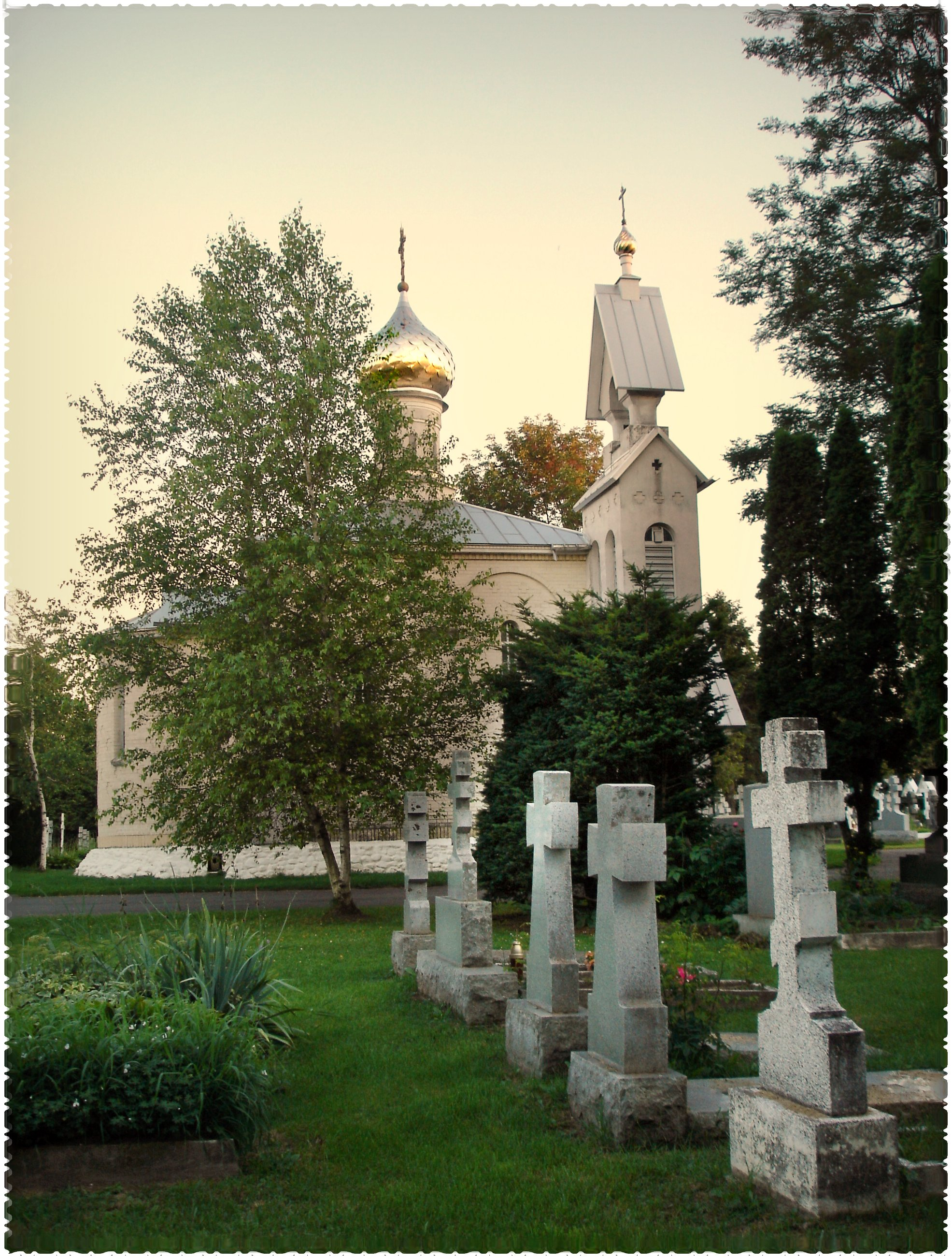 2011-07-05 vacation 097